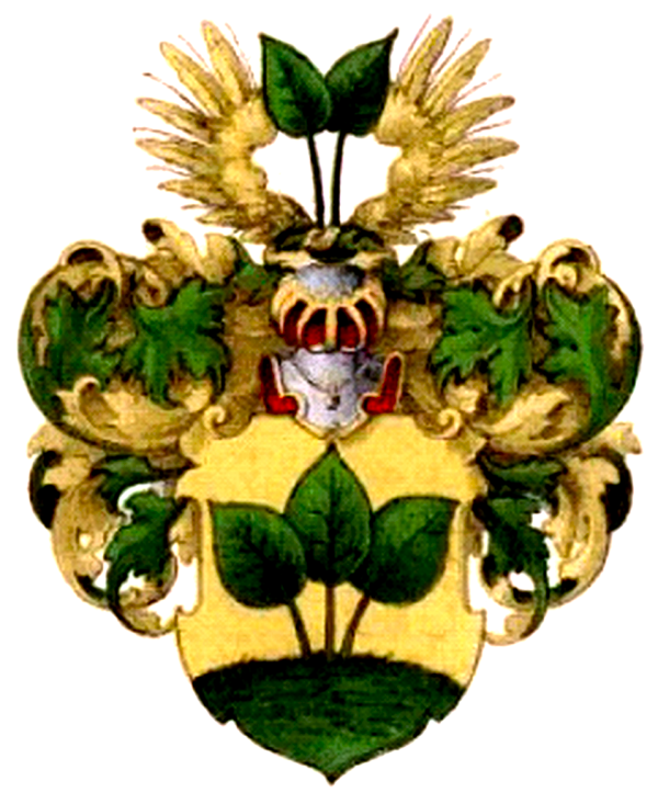 Coat of Arms of Meissner family